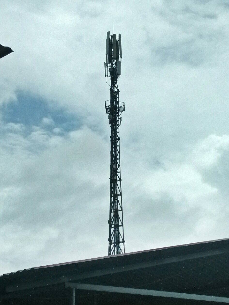 Trạm phát sóng Vinaphone tại xã Minh Lập, huyện Đồng Hỷ.